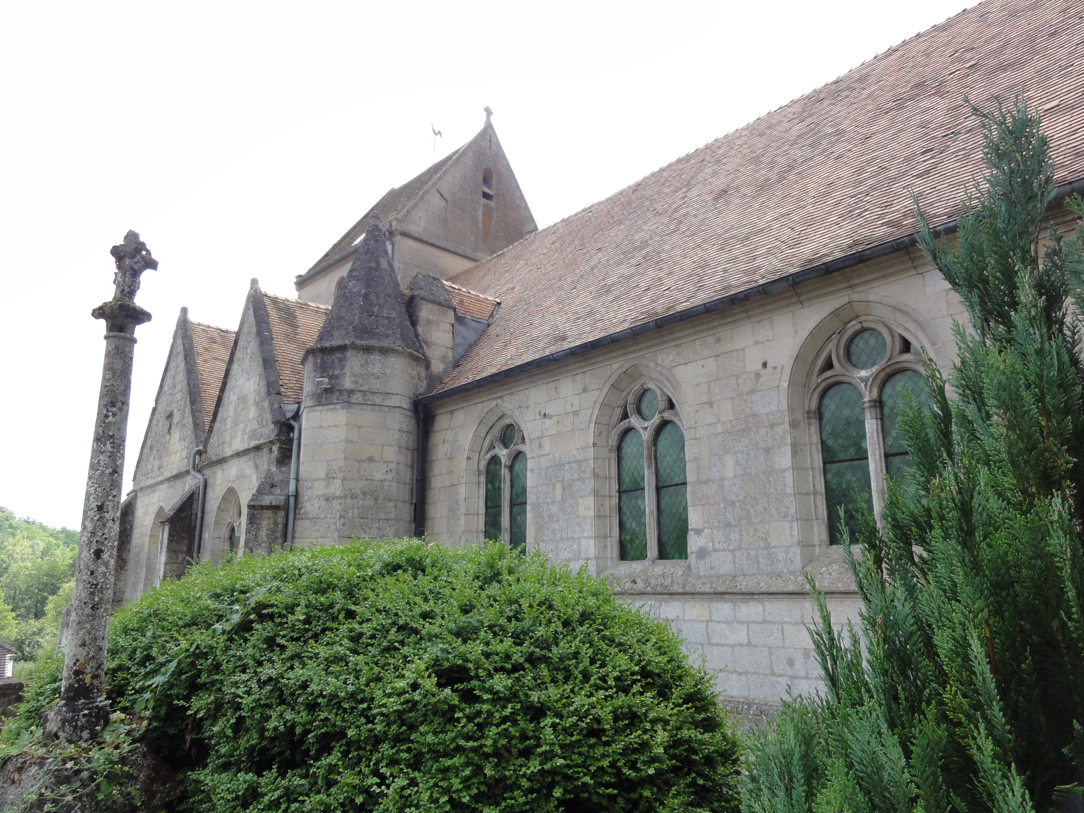 Laversine (Aisne) église